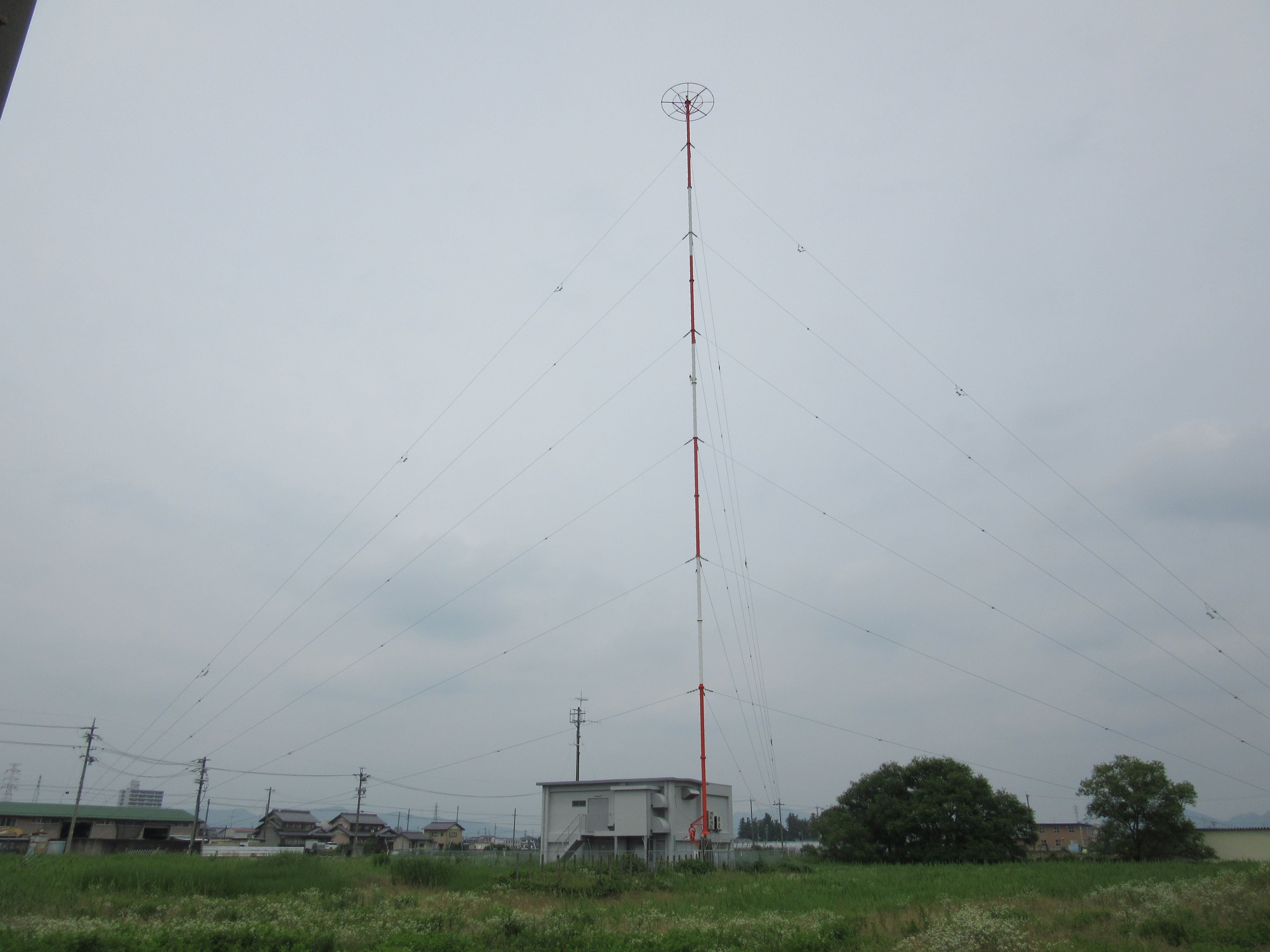 GBS Sogaya Radio Transmitting Station in Gifu, Gifu prefecture (JOZF 1431kHz 5kW)